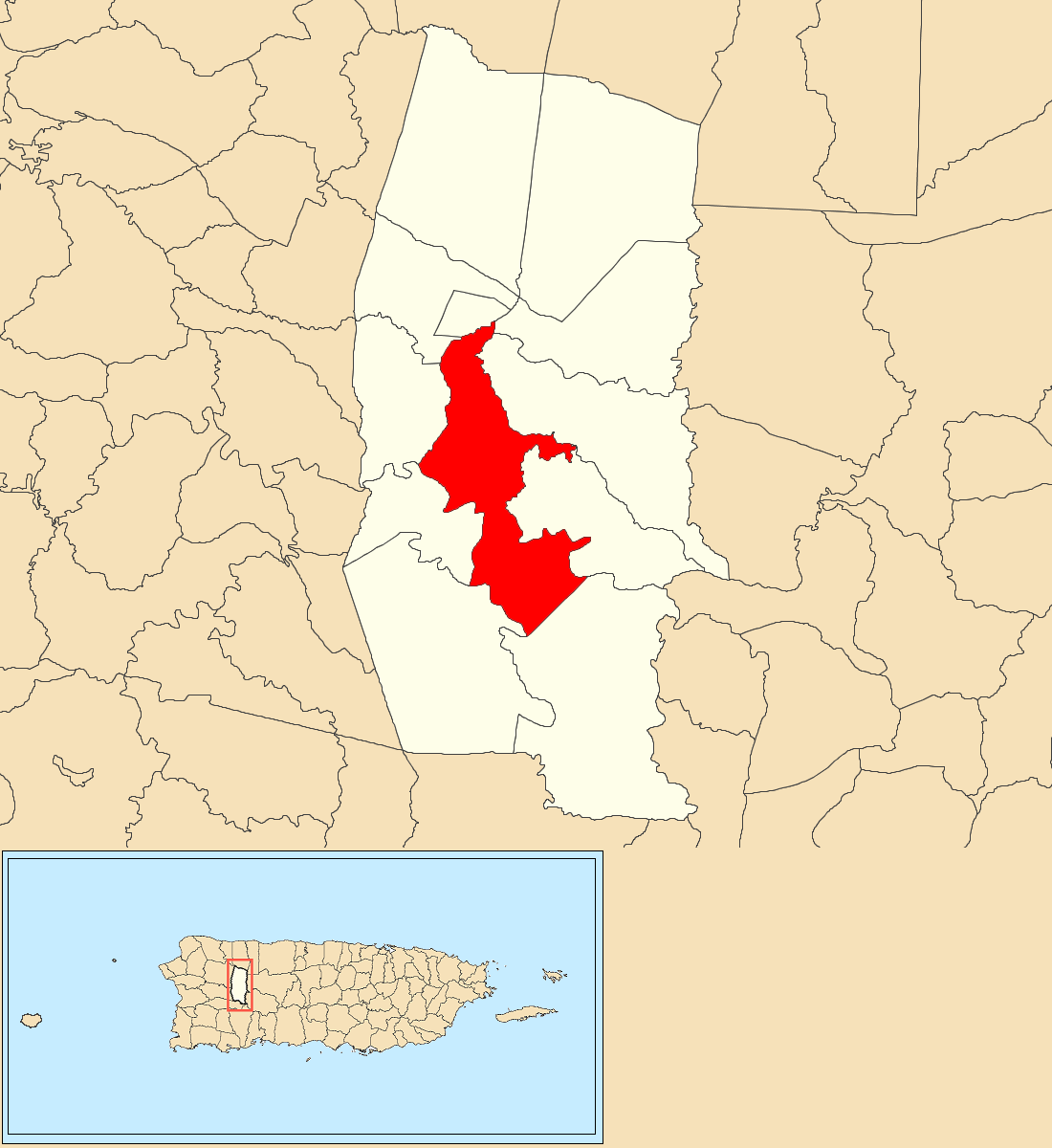 La Torre, Lares, Puerto Rico locator map